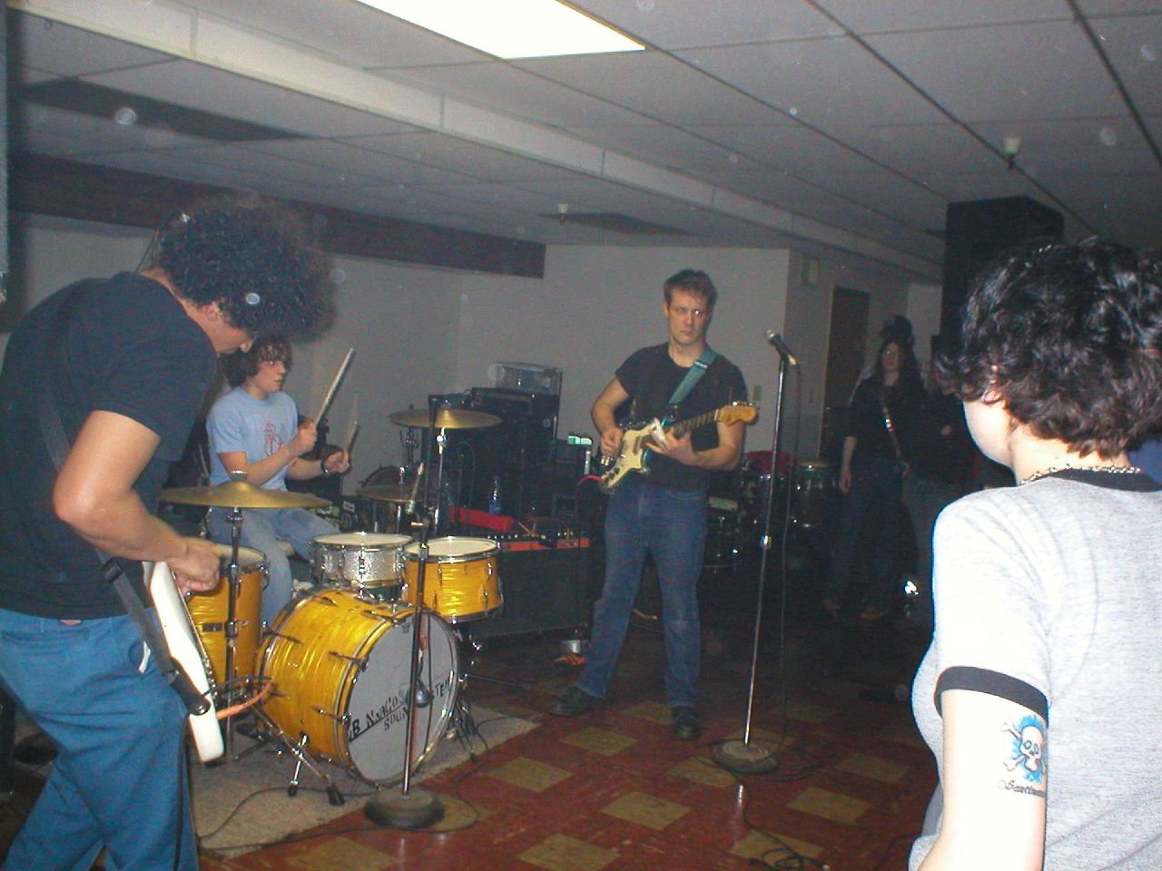 Beat Happening, playing in 2002.